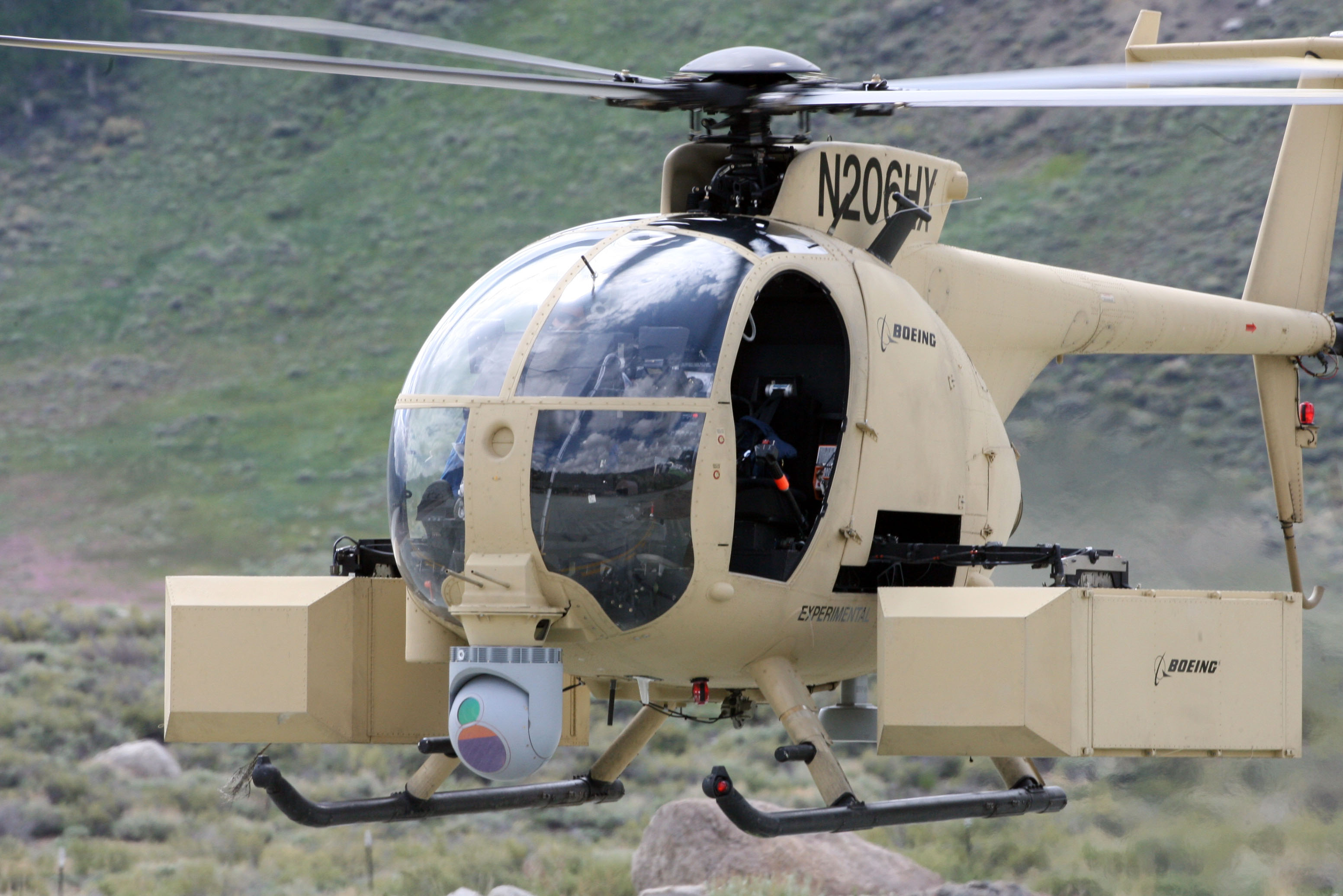 BRIDGEPORT, Calif. (June 16, 2009) The Unmanned Little Bird (ULB) helicopter, a smaller variant of the larger, manned A/MH-6M can be controlled by a pilot or piloted remotely. The ULB may be used for multiple missions that may include re-supply and casualty evacuation and is capable of carrying a 300-pound payload. (U.S. Marine Corps photo by Chief Warrant Officer 2 Keith A. Stevenson/Released)